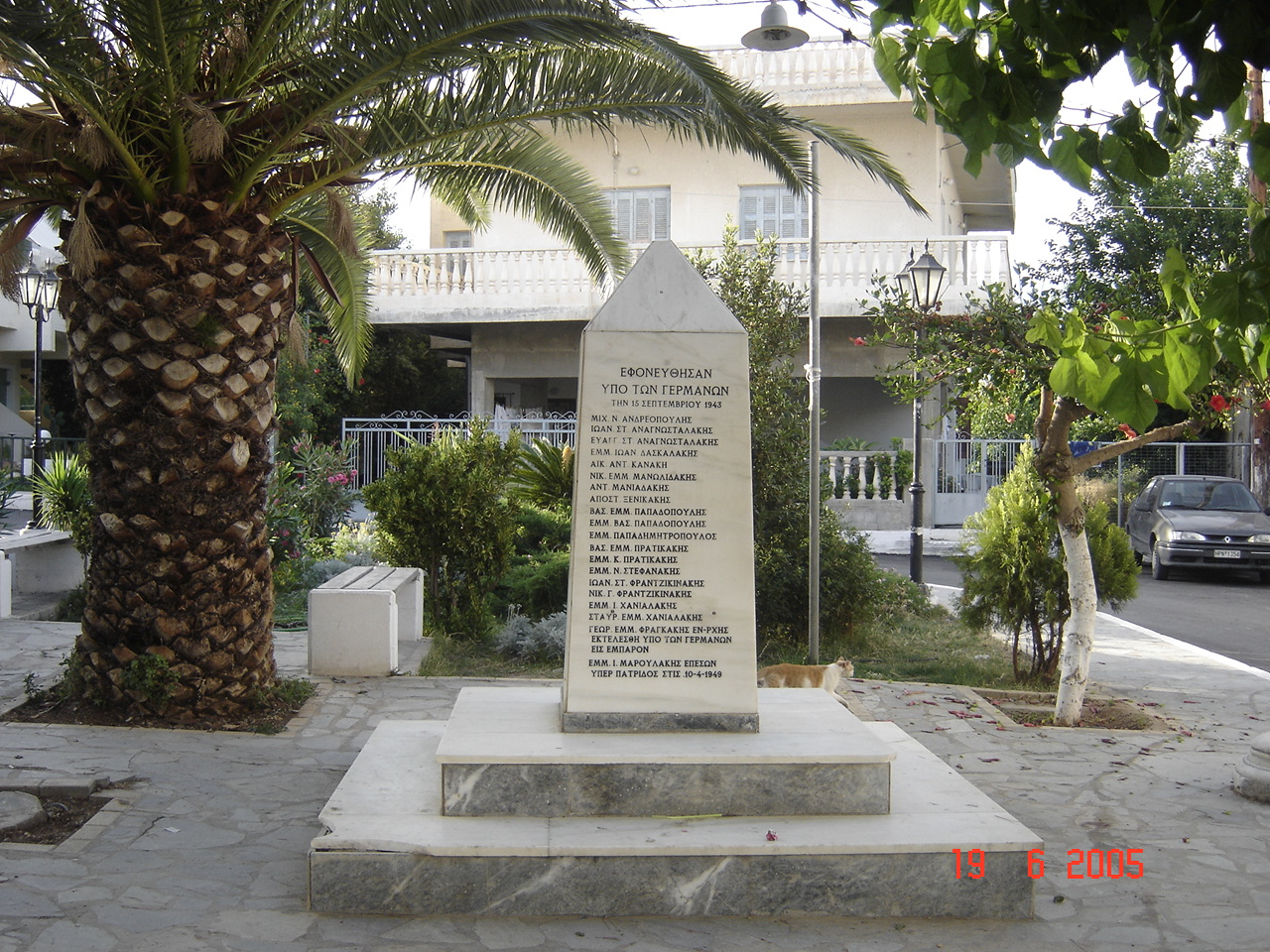 Memorial plaque for victims executed by Nazi in 1940s, at Myrtos, Lasithi Prefecture.